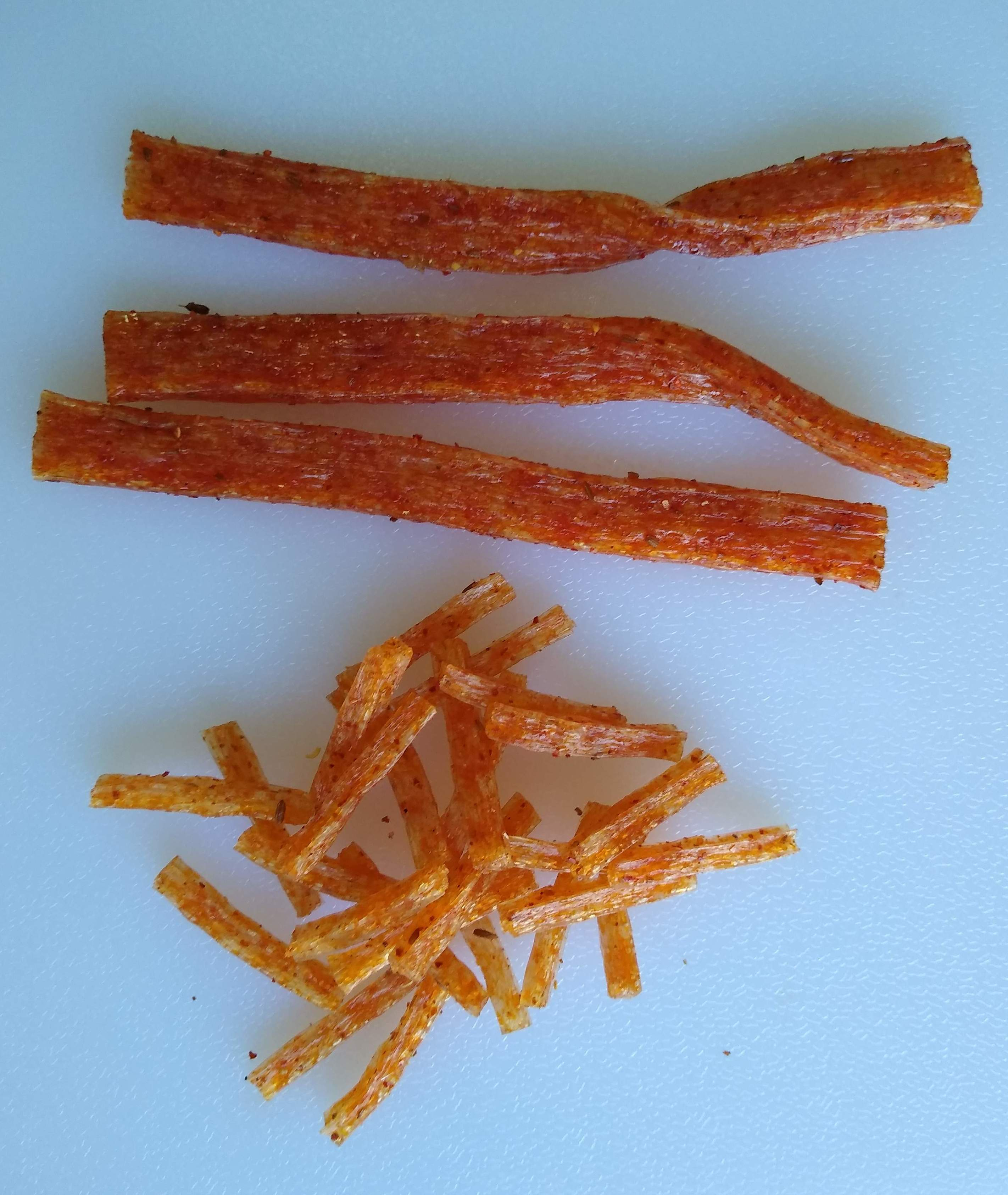 Làtiáo (辣条), a spicy wheat-based Chinese snack food. Made by Wèilóng (卫龙).